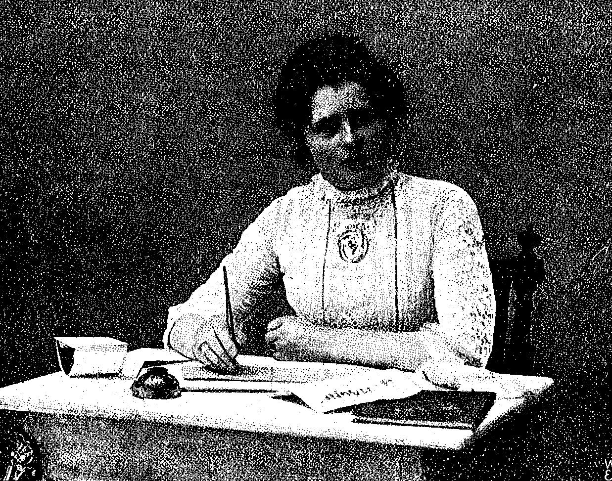 Josephine Janson, editor of Norwegian children's magazine Magne